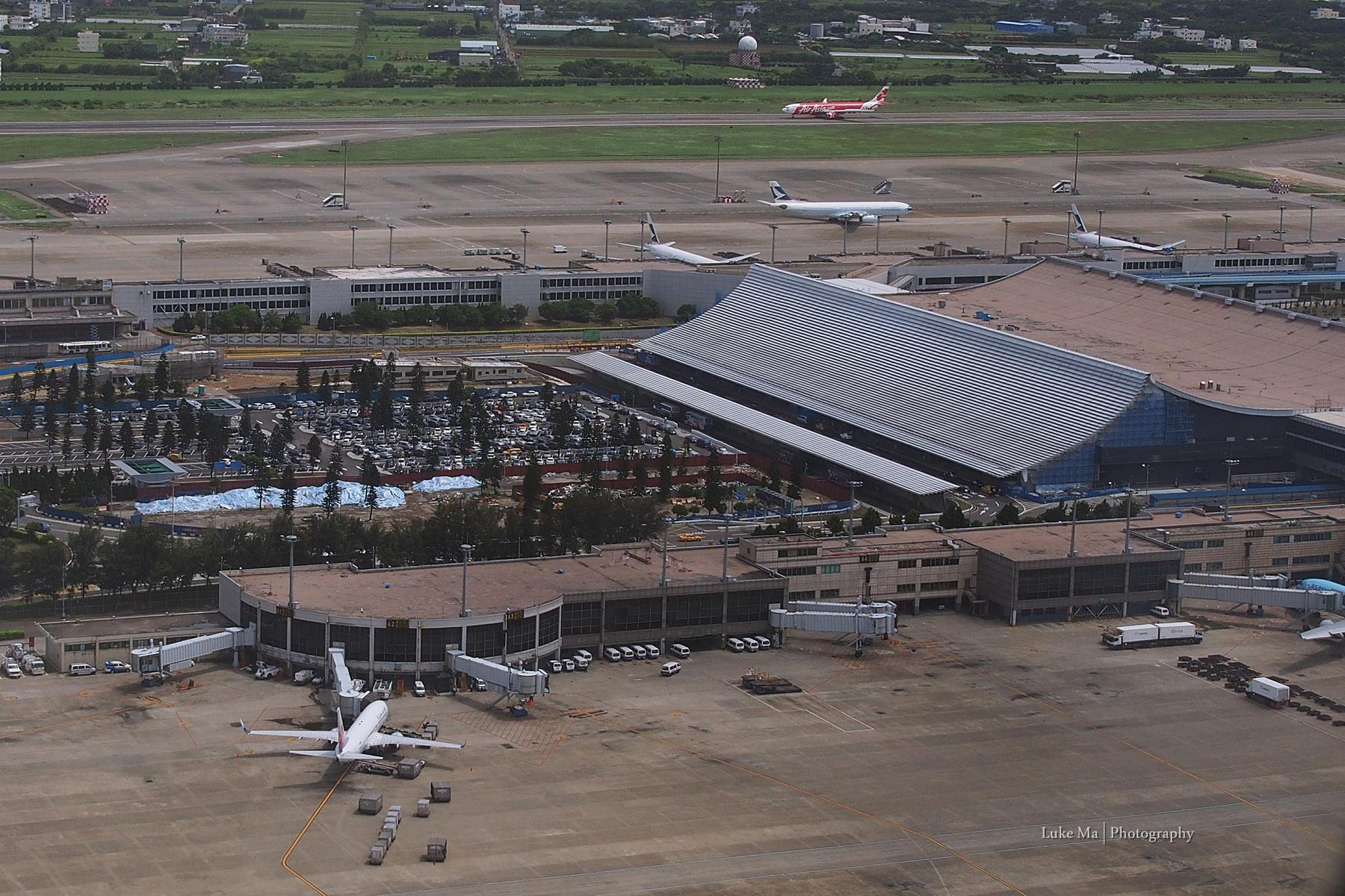 桃園國際機場 台灣 by Olympus OM-D E-M5 M.Zuiko M.ZD ED 14-150mm